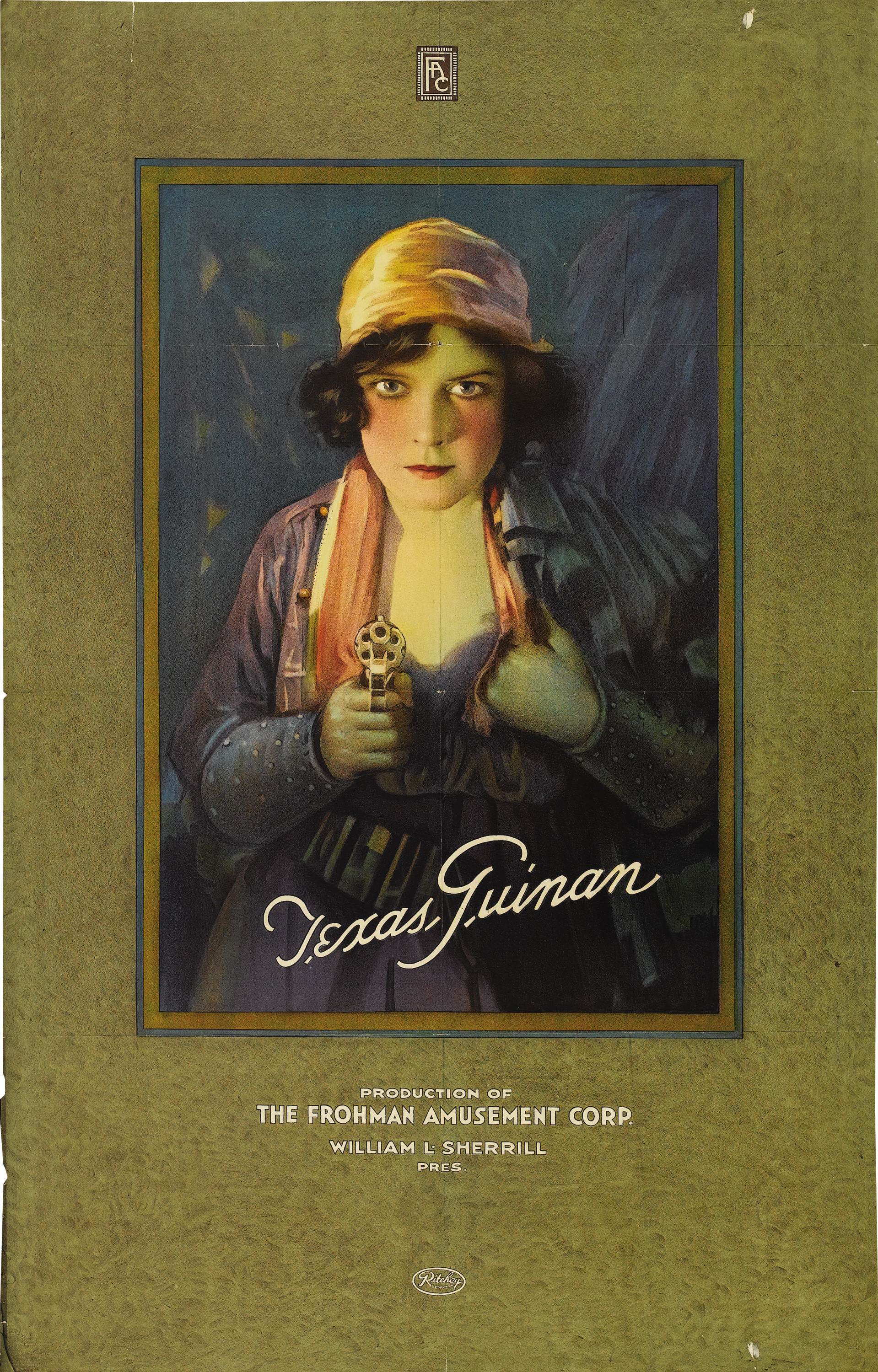 Movie poster promoting films with actress Texas Guinan.